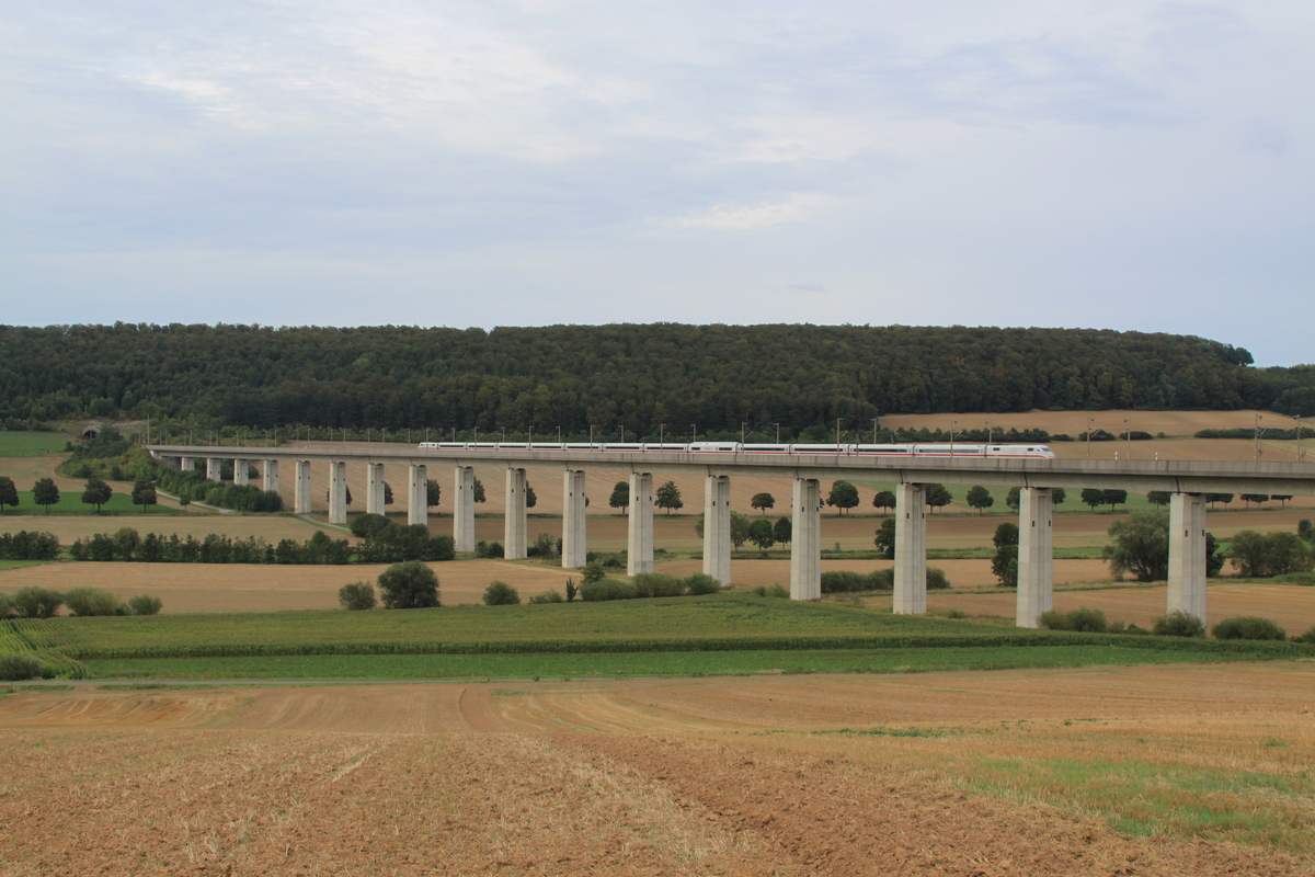 An ICE 1 high-speed train passing over Auetal Bridge.